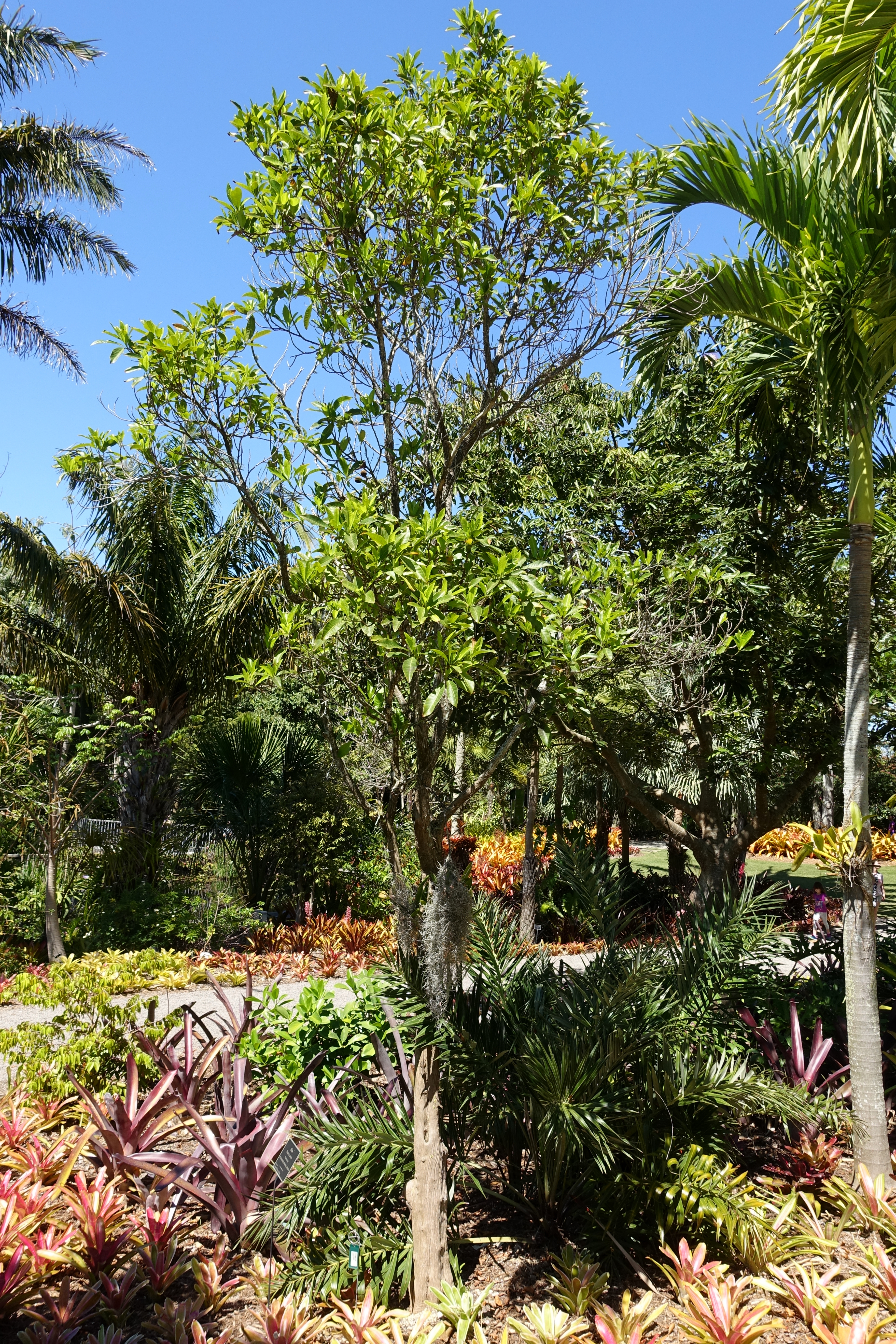 Botanical specimen in the Naples Botanical Garden - Naples, Florida, USA.